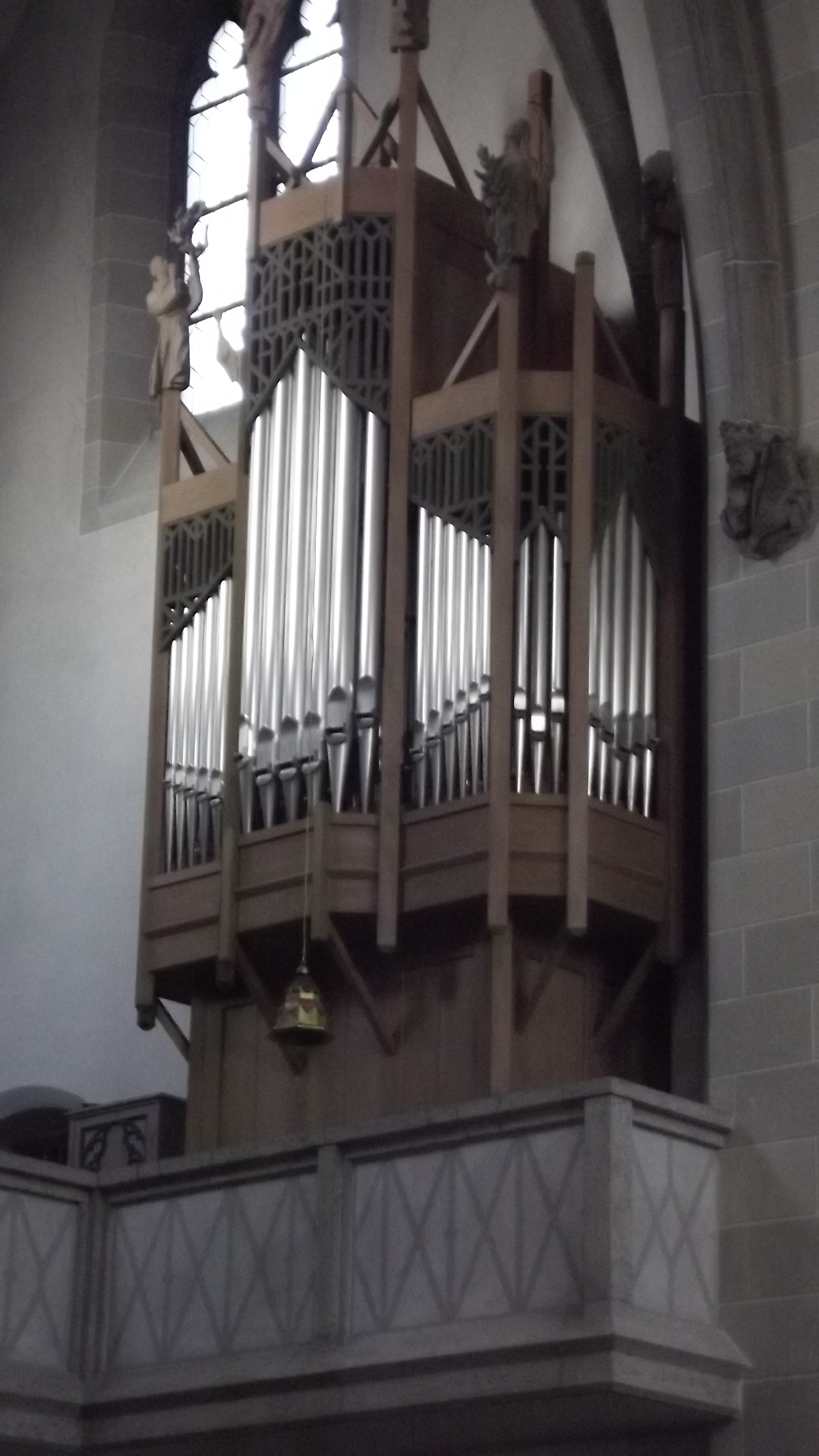 choir organ of St. Ottilien